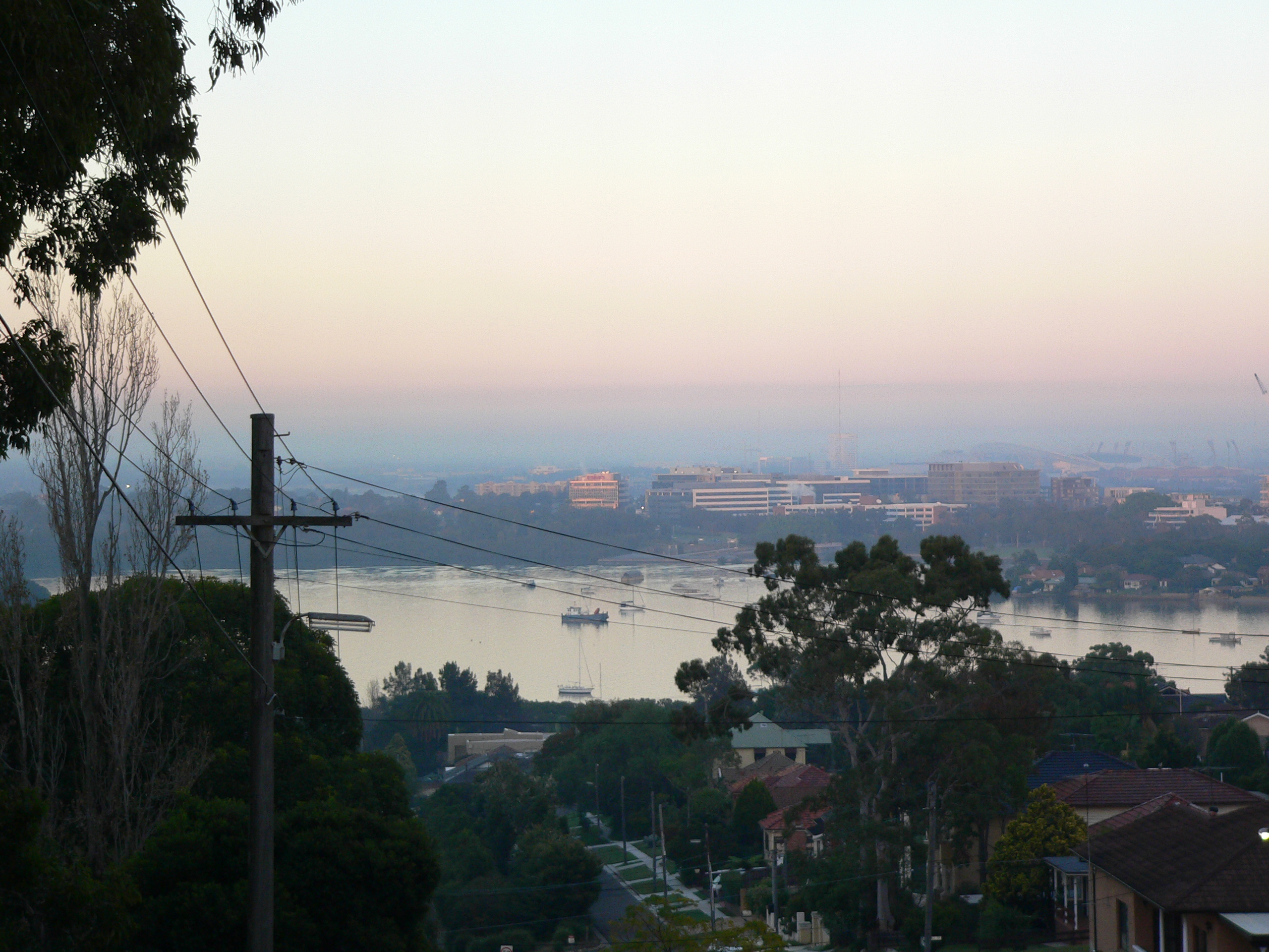 A hill in Ryde, looking across the river to Concord, Rhodes and the Olympic stadium.